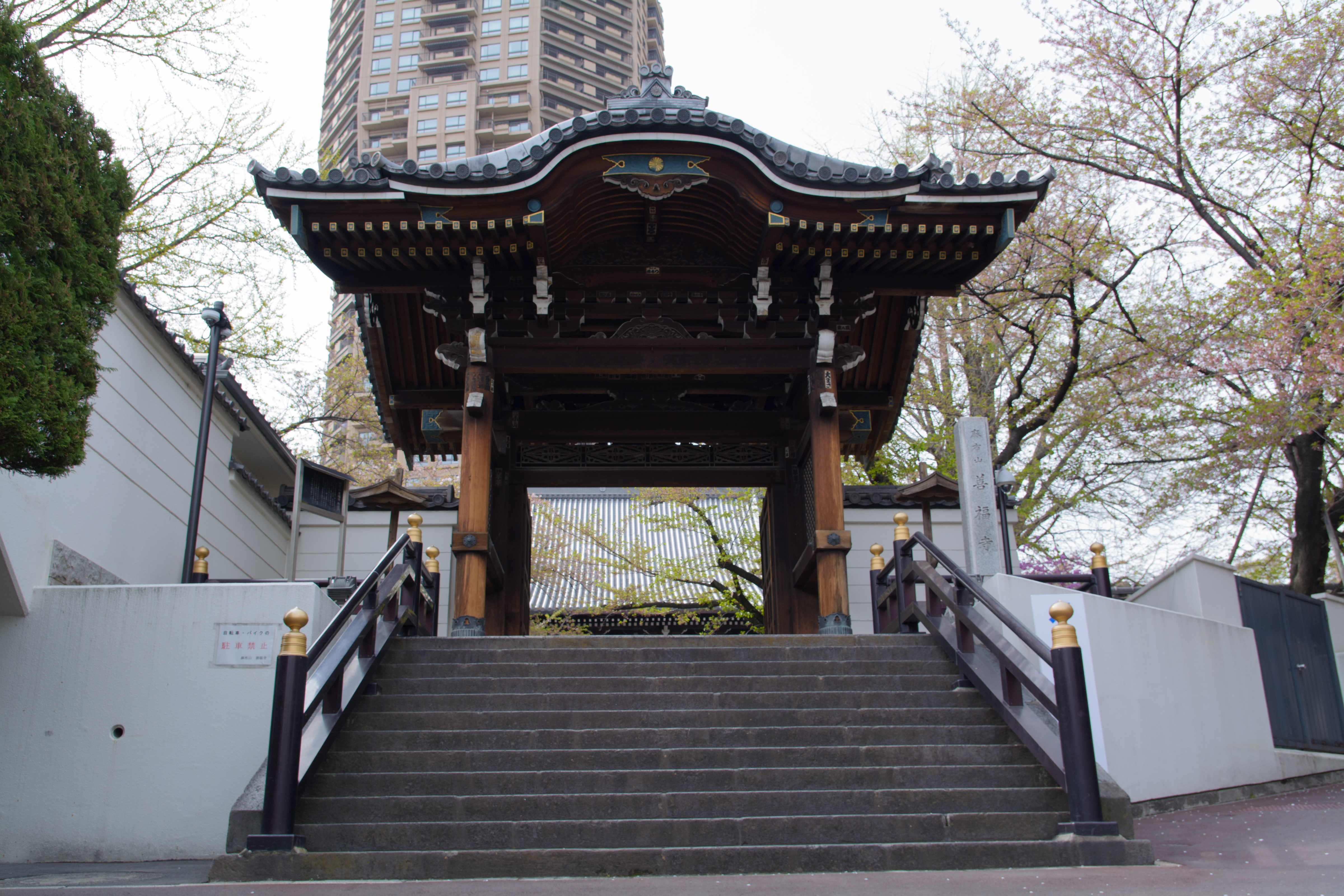 The Chokushi-mon of Zenpuku-ji